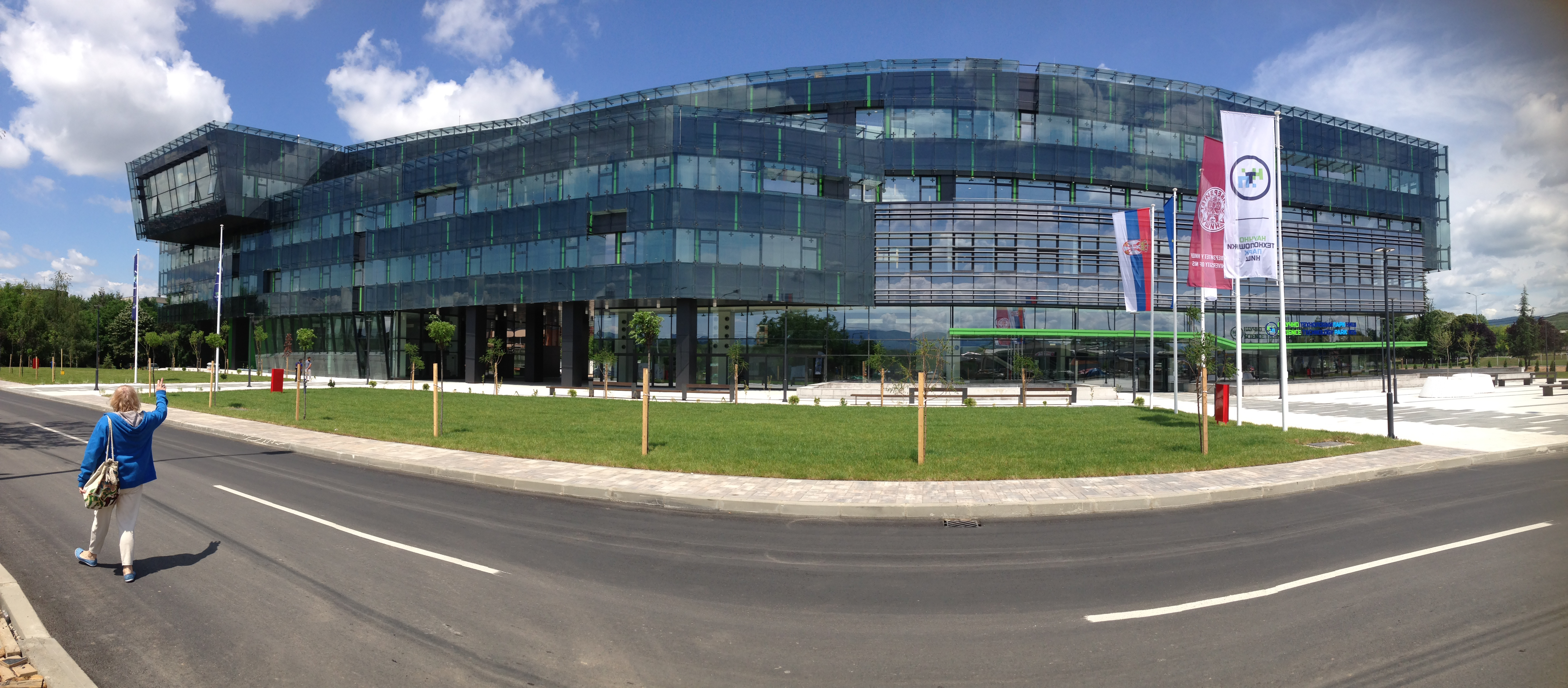 Science technology parc Nis